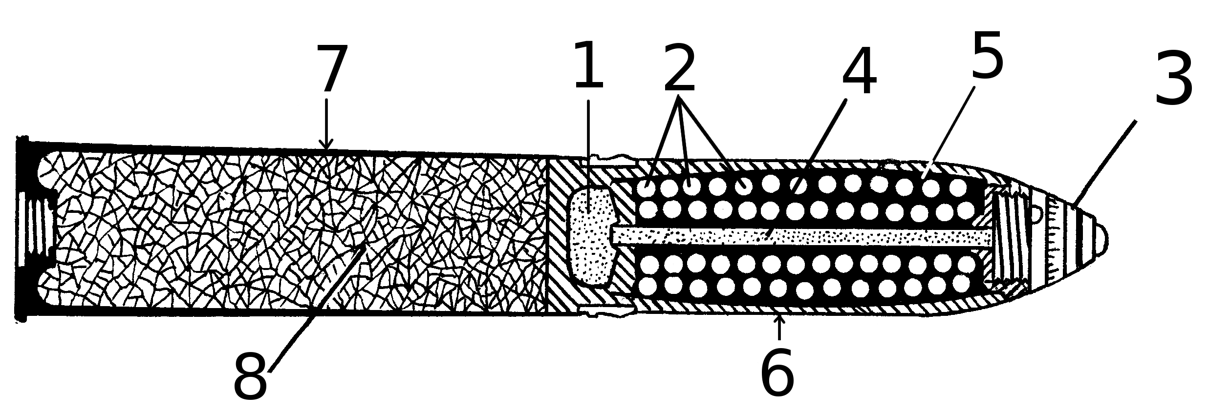 Line art diagram of typical shrapnel round as used in World War I. Small gunpowder bursting charge - fires bullets forward out of shell case. Shrapnel bullets (balls). Time Fuze. Central tube to carry detonator flash from fuze to bursting charge. Resin to hold bullets steady in position. Burns when shell bursts, giving off smoke which shows the gunner where his shells are bursting. Thin steel shell wall. Metal cartridge case. Shell propellant, typically cordite or nitrocellulose.